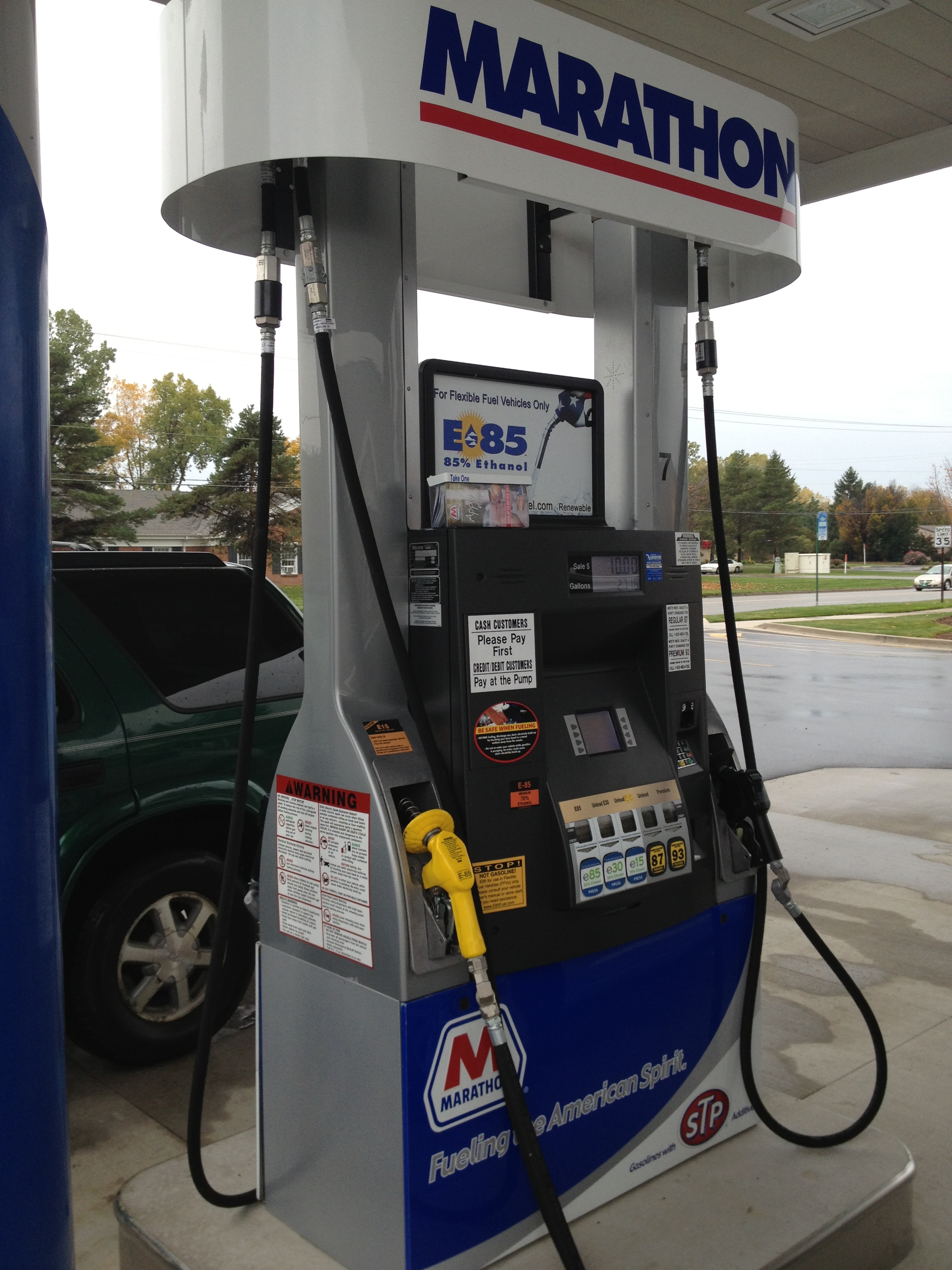 Blender fuel (E85 and smaller blends) at a Marathon station in East Lansing, Michigan. Note, the Marathon Petroleum Company does not produce E85 fuel themselves.